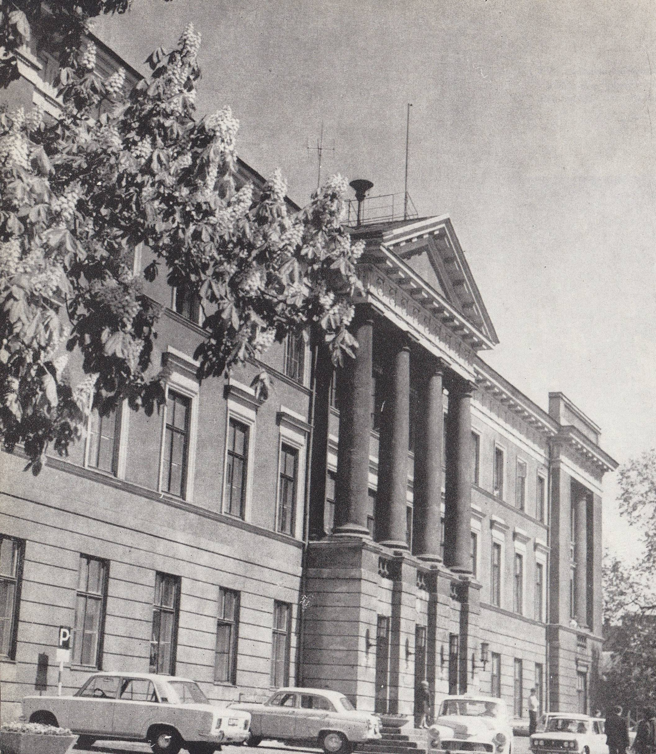 Building of Voivodeship Office in Radom